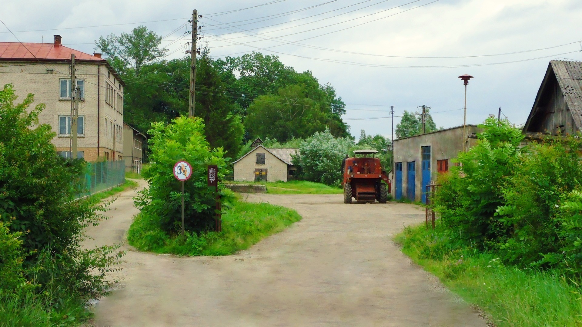 Main gate to Agricultural Production Cooperative Unity in Czerteż